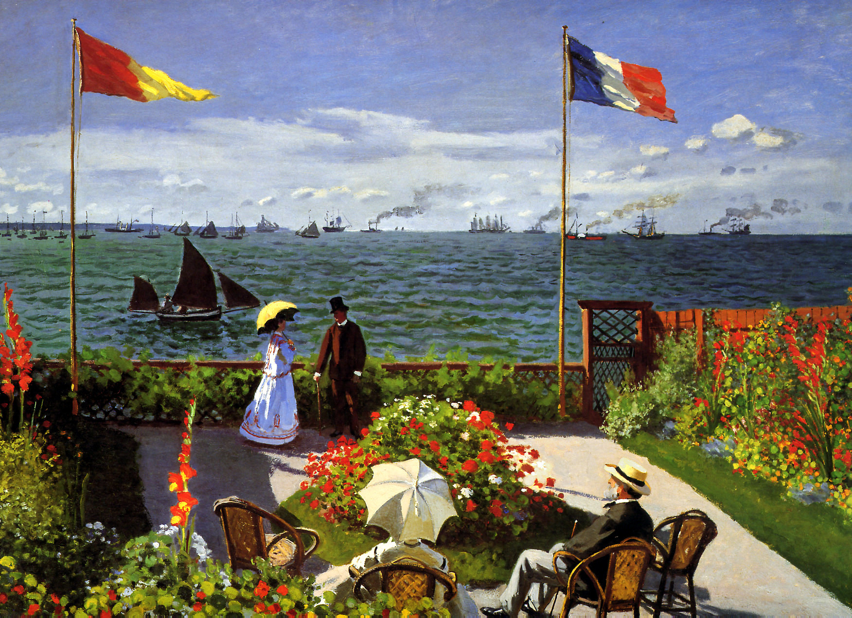 Painting: Terrace at Sainte-Adresse.